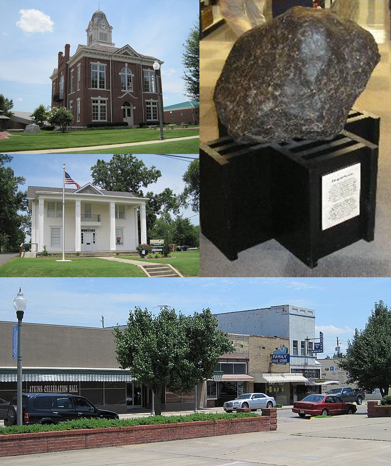 File:Paragould meteorite sm.jpg File:Paragould AR 2011 06 23 010.jpg File:Paragould AR 2011 06 23 017.jpg File:Green County Museum Paragould AR 002.jpg